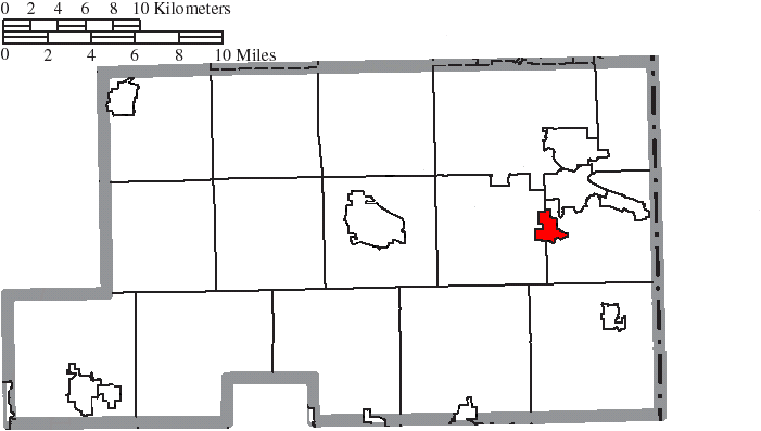 Map of the municipal and township boundaries of Mahoning County, Ohio, United States, as of the 2000 census, with the location of the village of Poland highlighted. Township borders are shown only in unincorporated areas in order to differentiate incorporated and unincorporated areas more clearly.